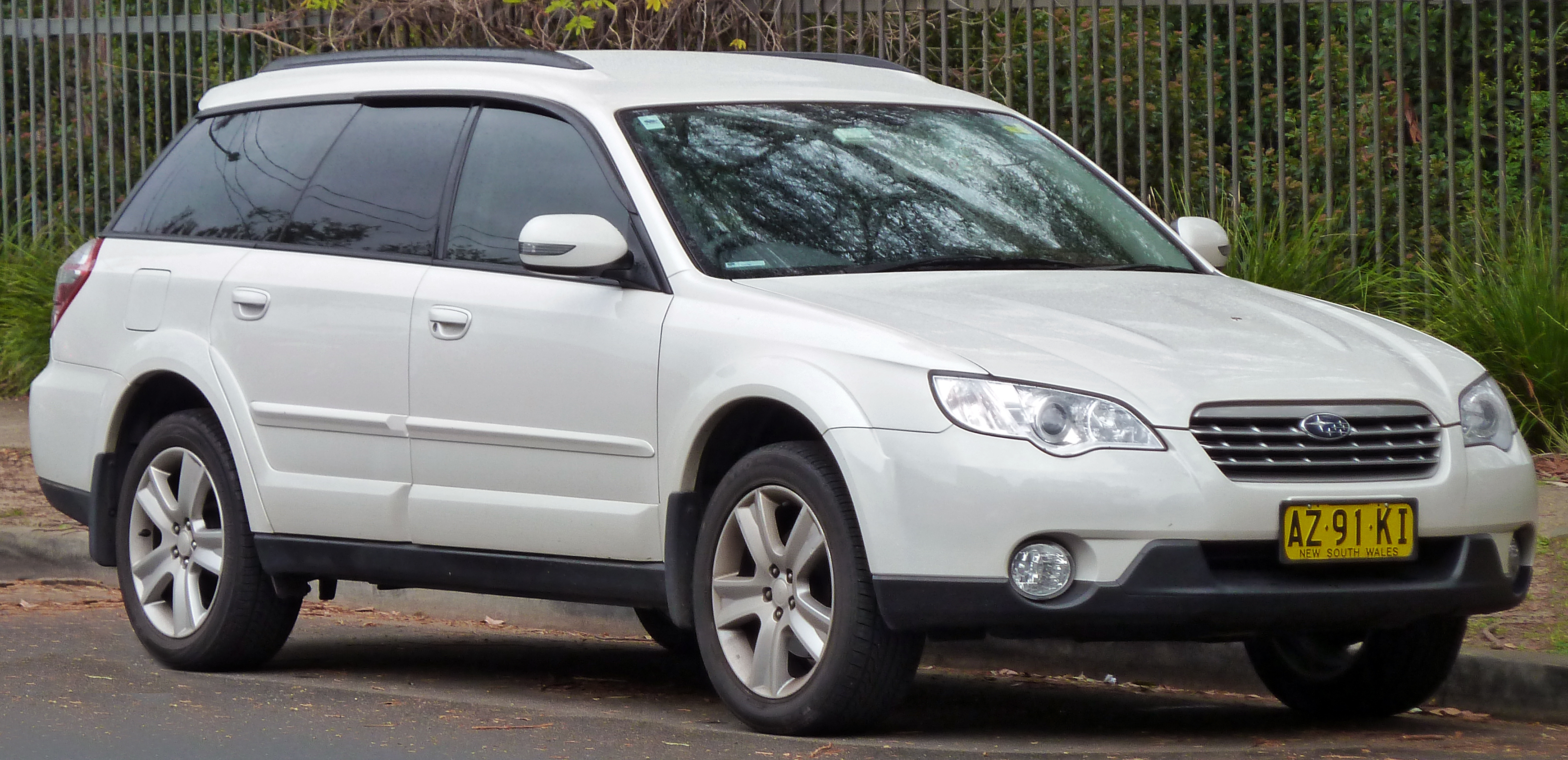 2008 Subaru Outback 2.5i station wagon. Photographed in Gymea, New South Wales, Australia.